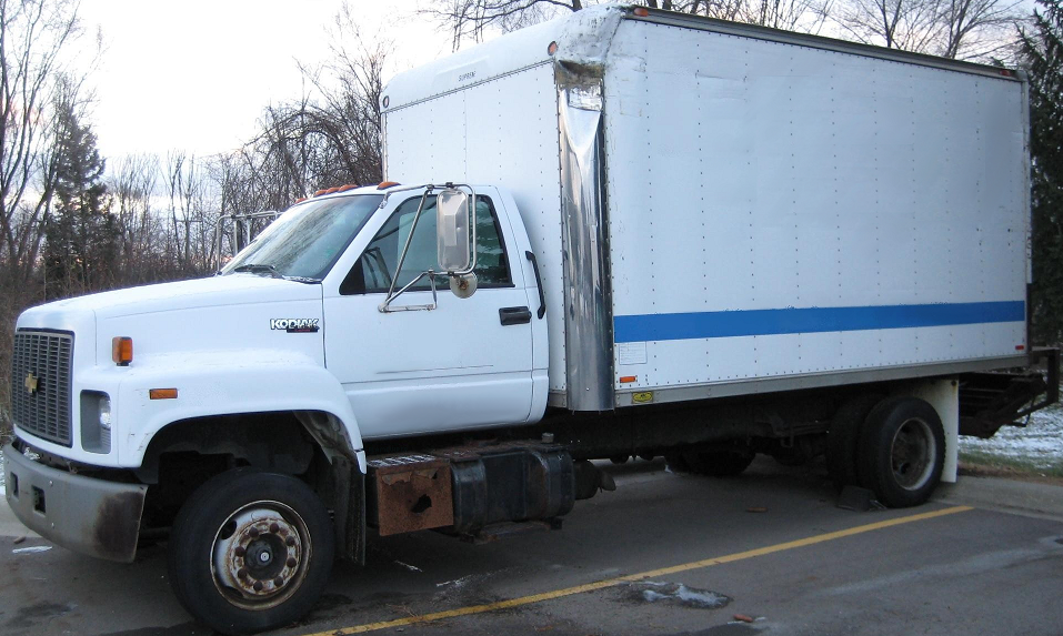 A picture of a Chevrolet Kodiak hauling truck taken by me. Located in Michigan (United States)..